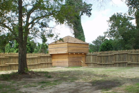 Fort Mitchell Site in Russell County, Alabama. Detail of blockhouse and stockade reconstruction.